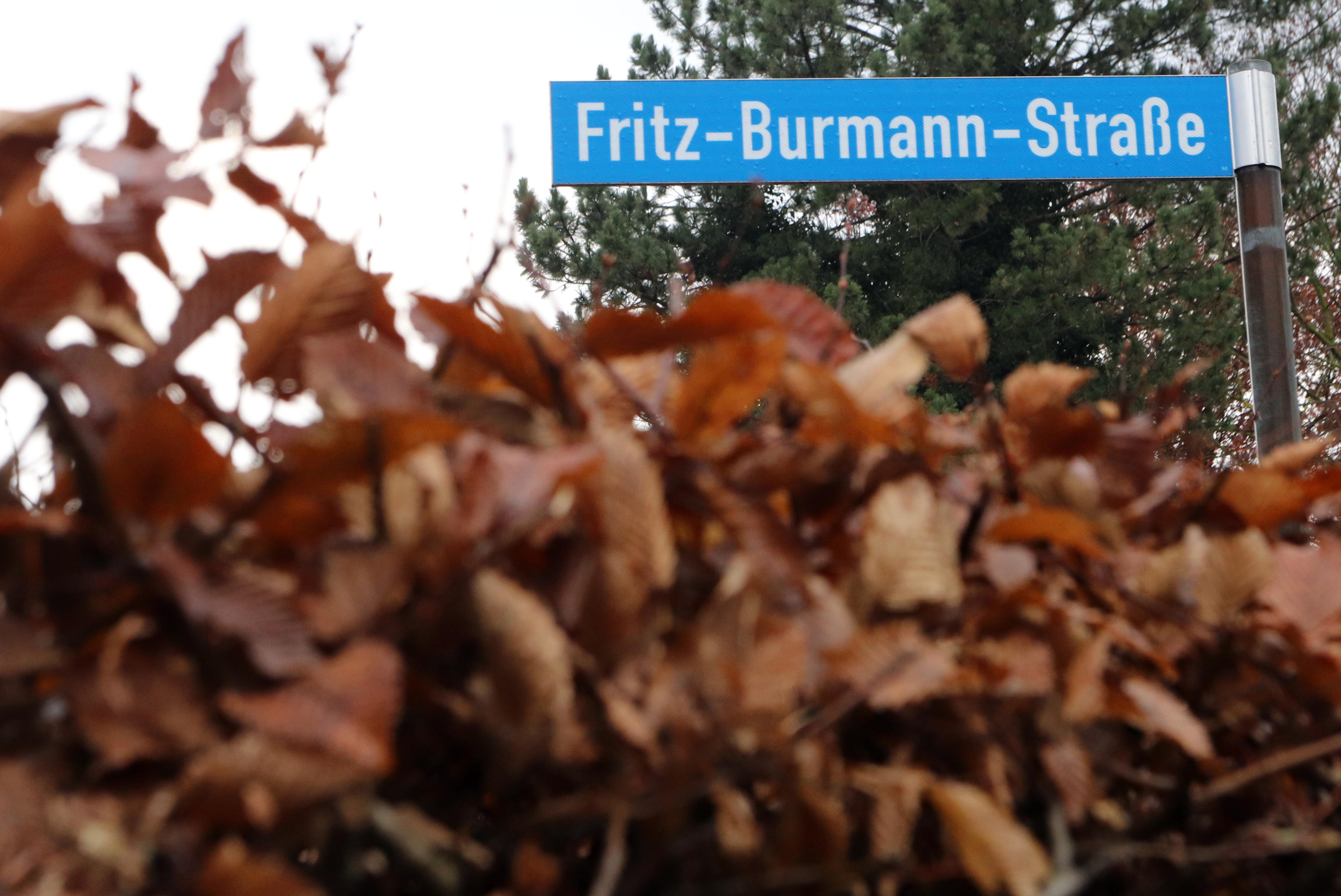 Fritz Burmann Street in Rheda-Wiedenbrueck